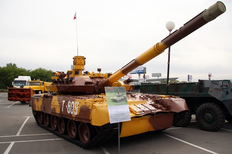 T-80UM-1 tank at VTTV-Omsk in 2009.